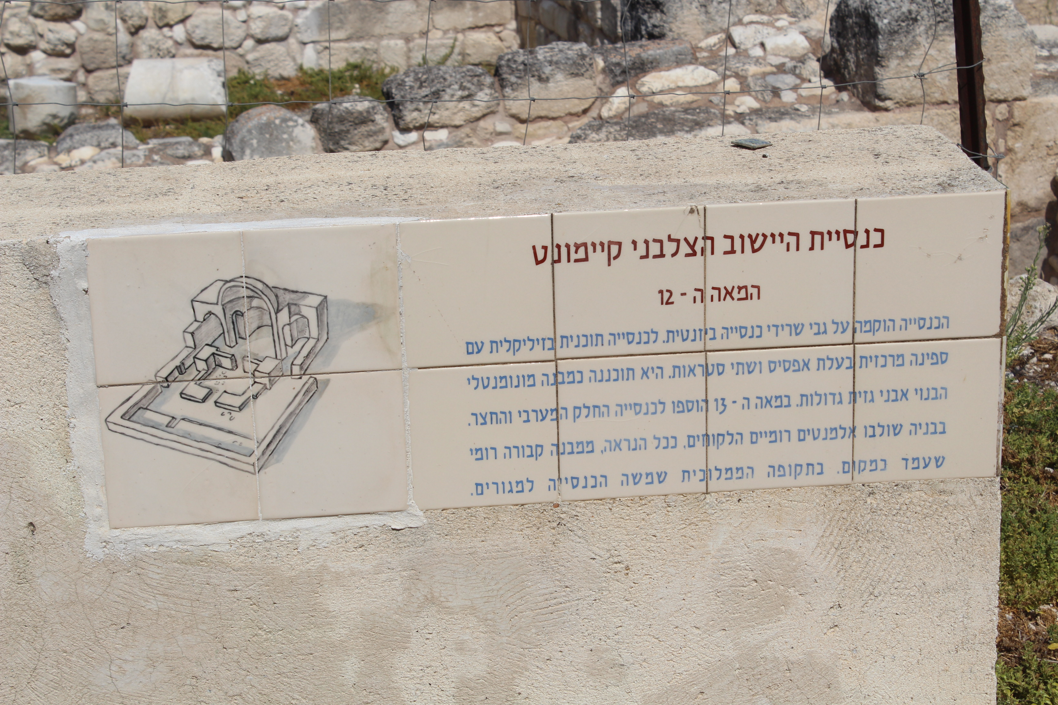 Crusader period church,Tel Yokneam The site's ID in Wiki Loves Monuments photographic competition is 16-0240-100